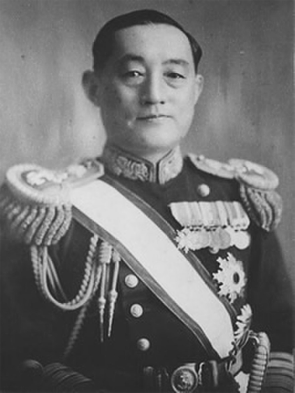 Admiral Mitsumasa Yonai (1880–1948). He was the Prime Minister of Japan in 1940.